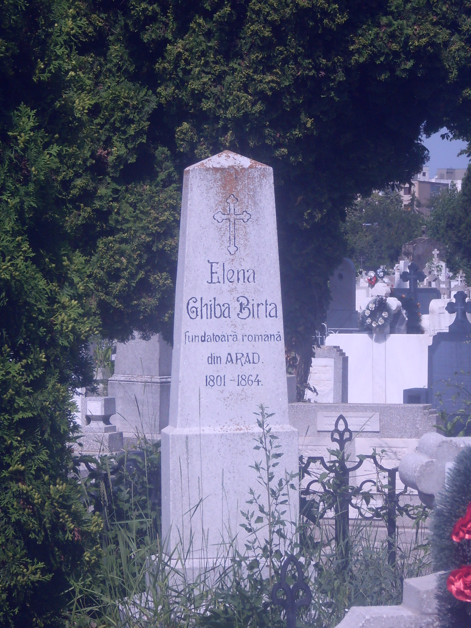 Mormântul Elenei Ghiba Birta